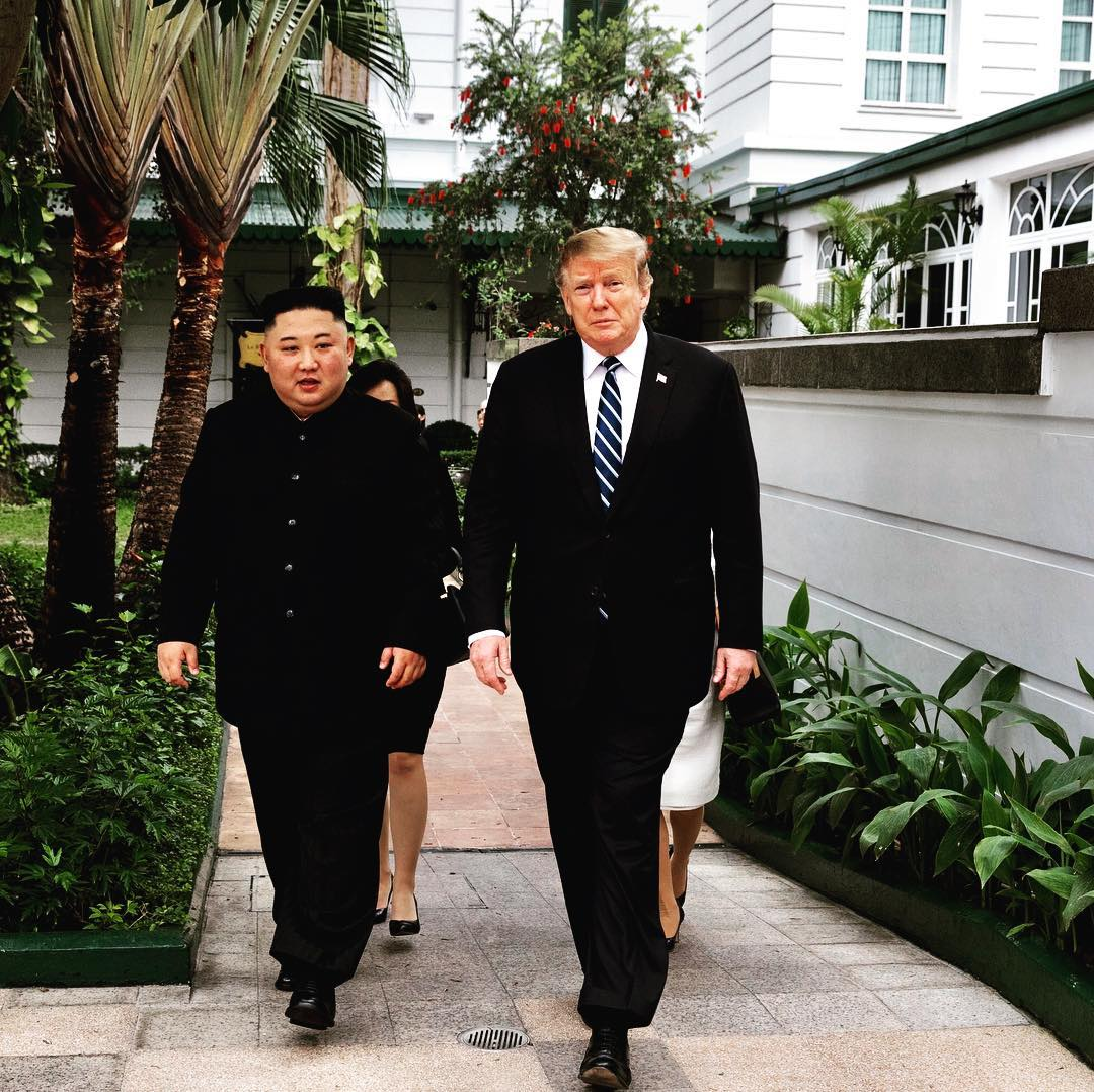 President Trump and Chairman Kim walk to meeting outside of Metropole Hotel in Hanoi. #potus #trump #hanoisummit #vietnam Photo credit - WH photo office